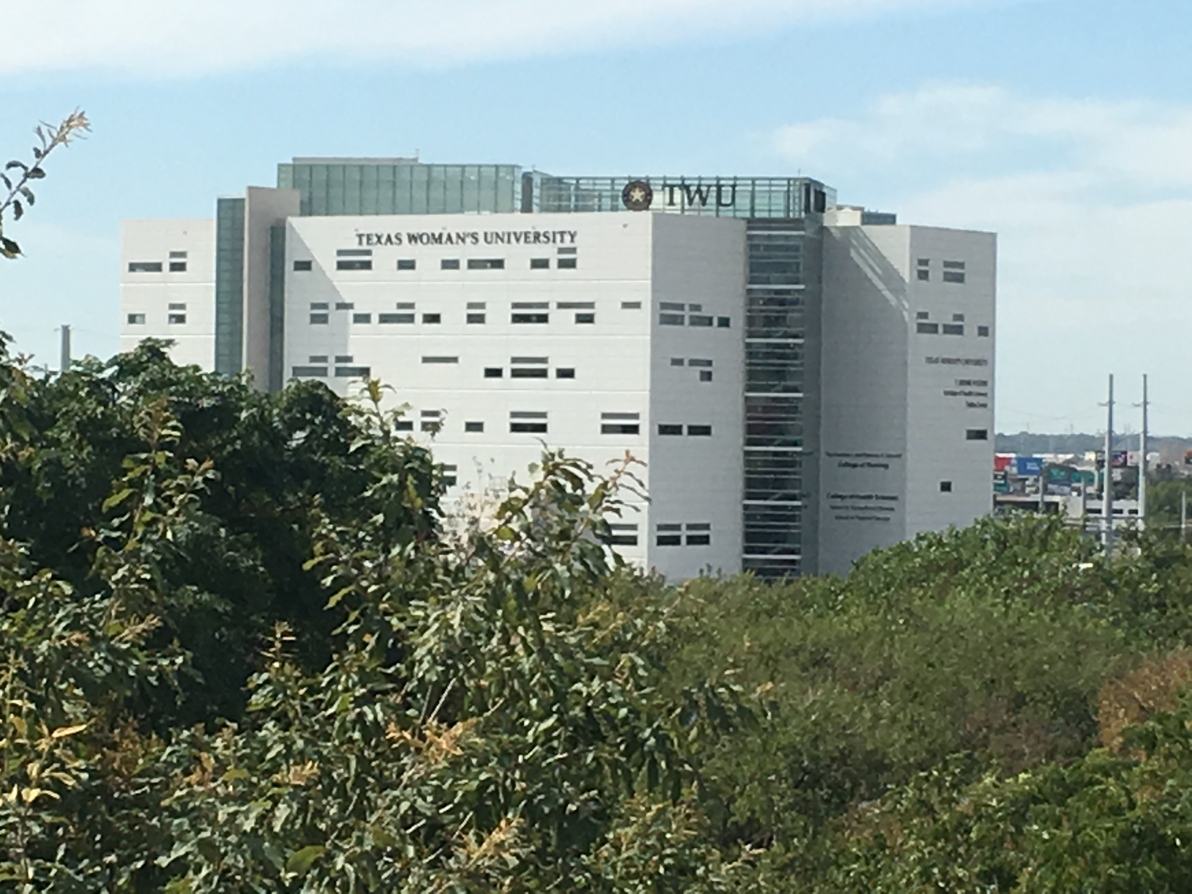 Texas Woman’s University, Dallas